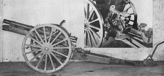 Sideview of Improved Type 38 75 mm field gun with inset view of the breech